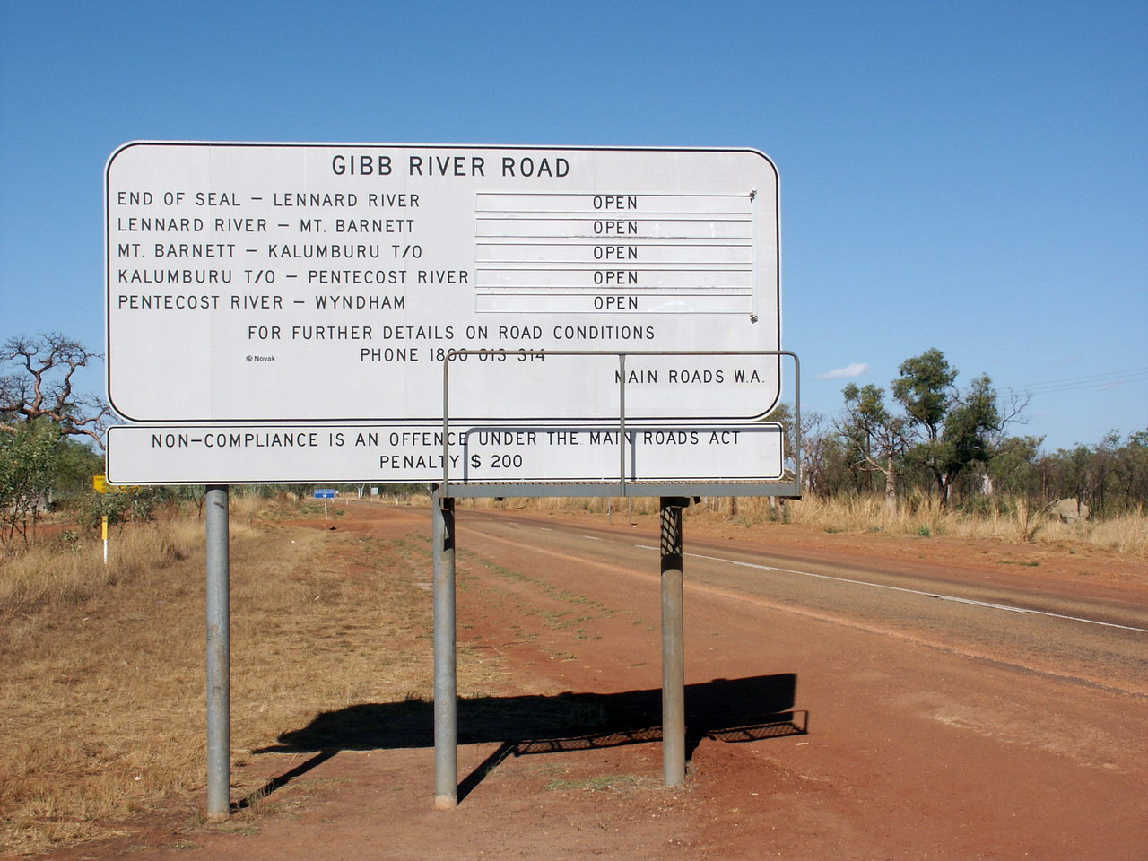 Gibb River Road], Western Australia.